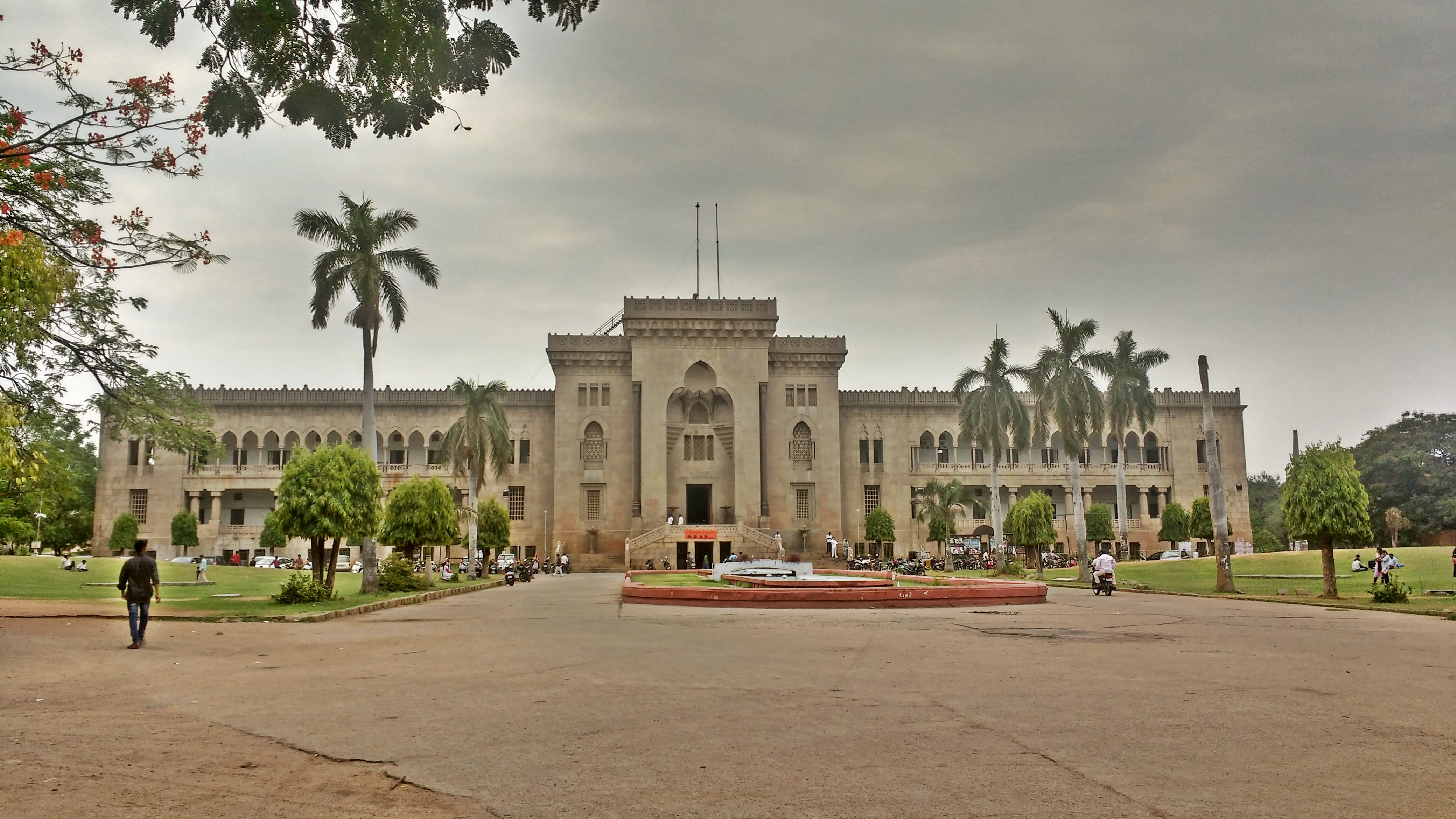 Osmania College of Arts and Social Science. Hyderabad